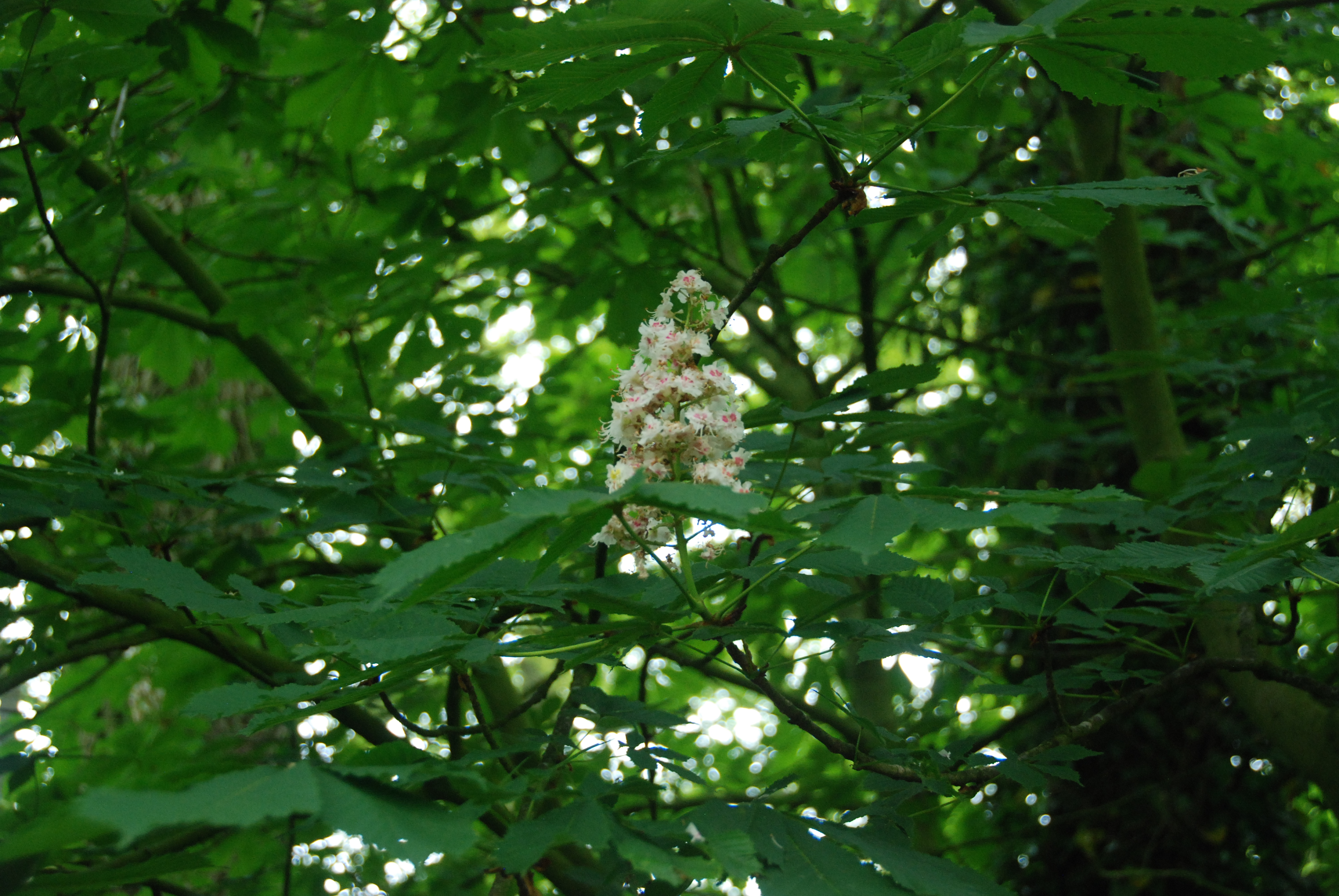 Bloemen van een kastanjeboom in het Loohuisbos.